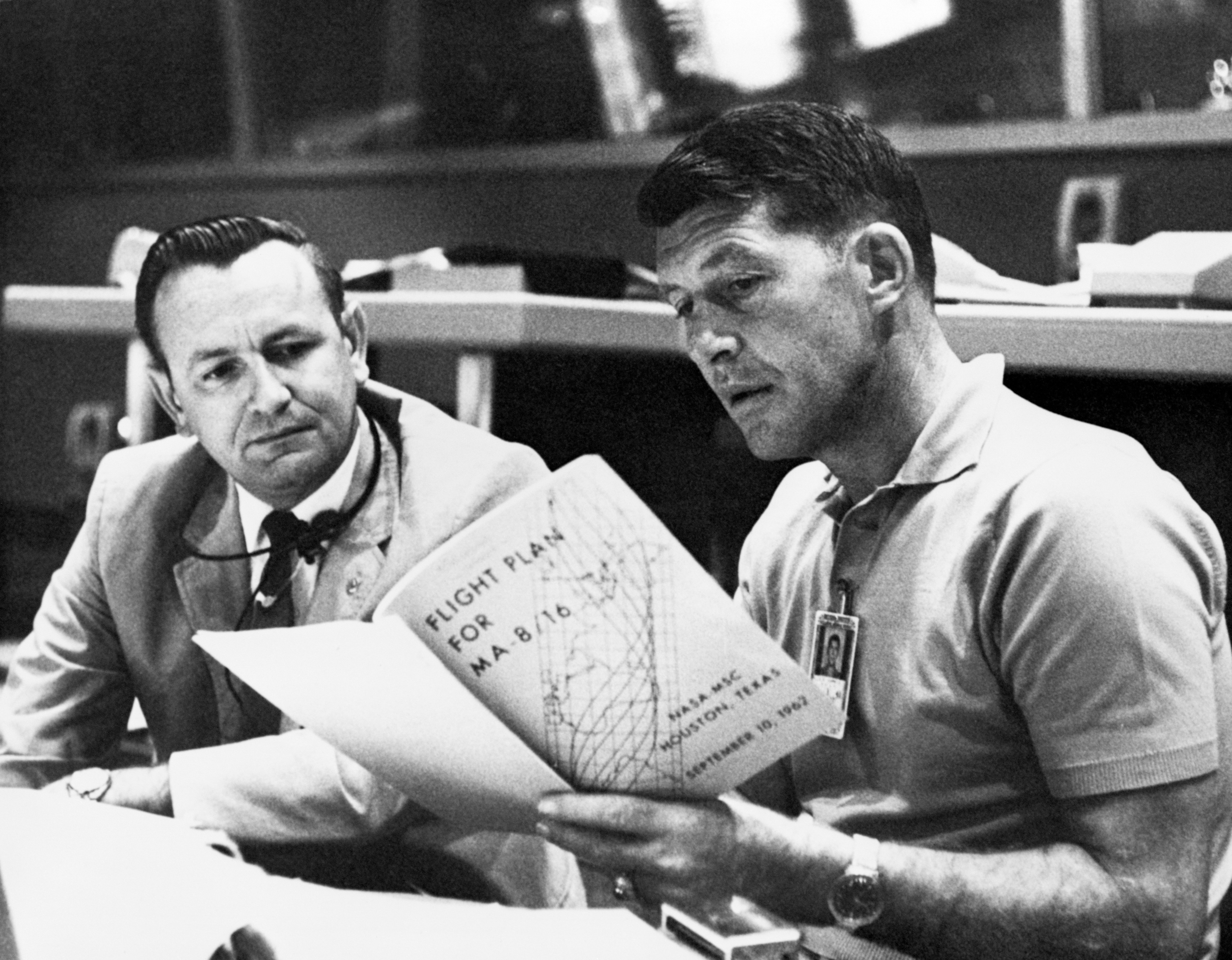 S74-33004 (19 Sept. 1962) --- Astronaut Walter M. Schirra Jr, (right), Mercury-Atlas 8 (MA-8) pilot, discusses the MA-8 flight plan with flight director Christopher C. Kraft Jr., Chief of the Flight Operations Division at the Manned Spacecraft Center, Houston, during MA-8 preflight preparations at Cape Canaveral, Florida. They are seated at a console in the Mercury Control Center.